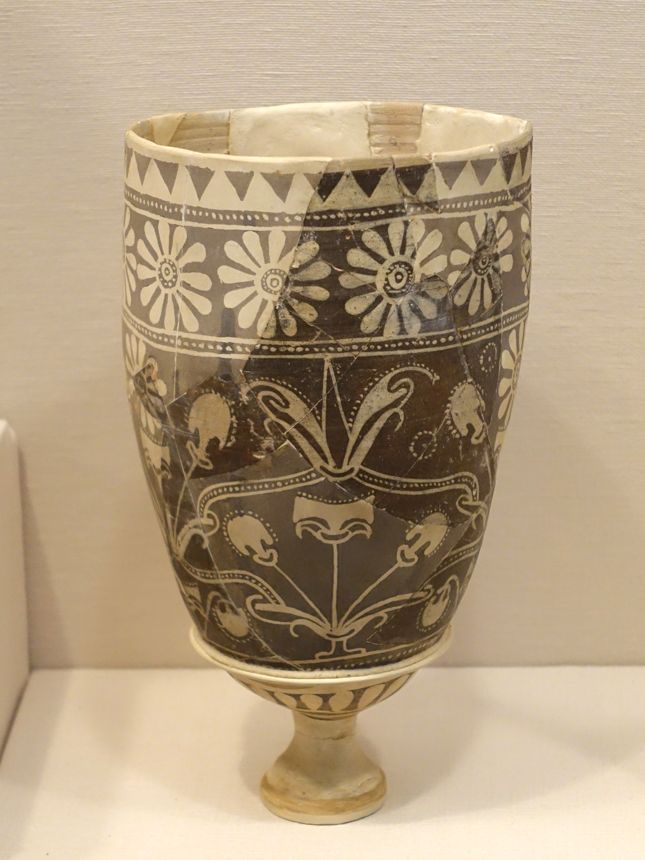 Exhibit in the Oriental Institute Museum, University of Chicago, Chicago, Illinois, USA. This work is old enough so that it is in the public domain.